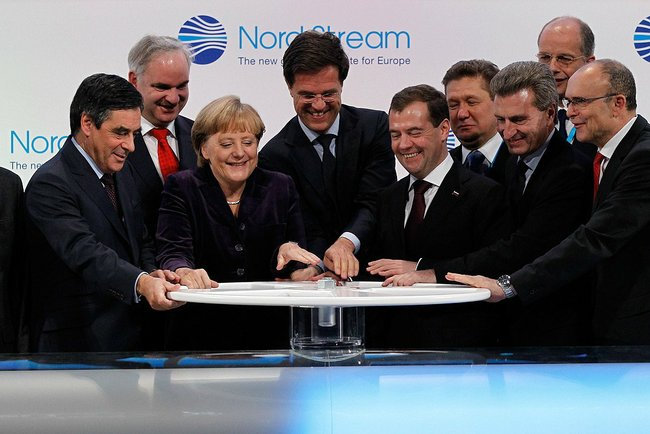 Ceremony of opening of gasoline Nord Stream. Among others Angela Merkel and Dmitry Medvedev